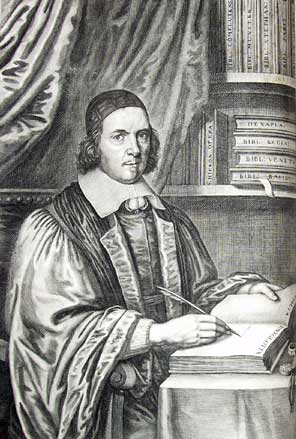 Portrait of Brian Walton, from: Biblia sacra polyglotta, complectentia textus originales, Hebraicum, cum Pentateucho Samaritano, Chaldaicum, Graecum, Arabicae, Aethiopicae, Persicae... Londini : Imprimebat Thomas Roycroft, 1657. [Marsden Collection R1 and Rare Books Collection FOL. BS1.W17]